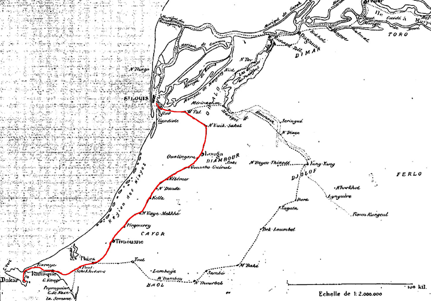 The Dakar-Saint-Louis line in Senegal published in La Géographie cited below.